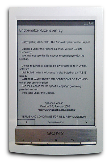 Lizenz text of the Sony PRS T1 showing the use of linux.